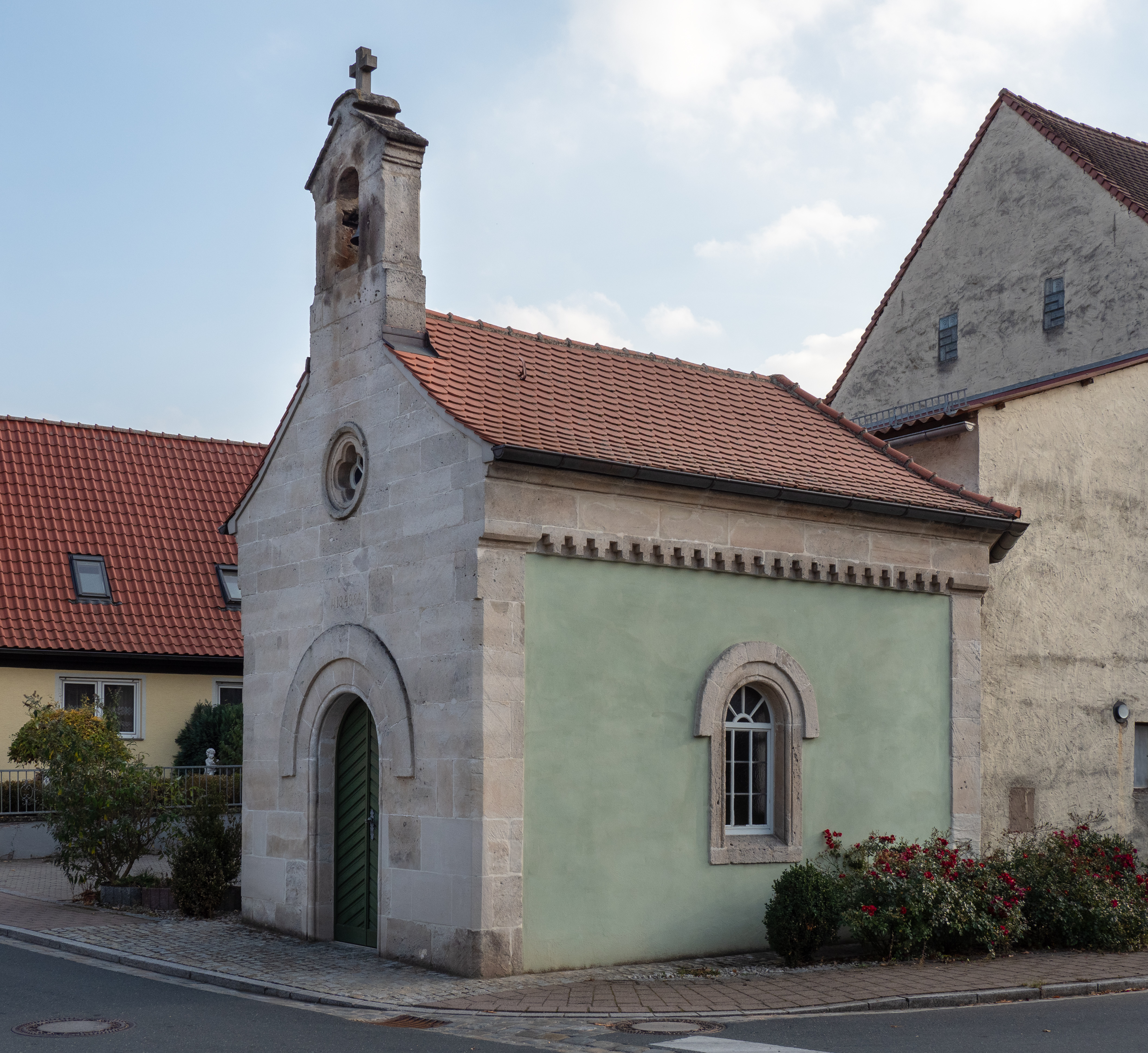 Catholic Chapel St. Valentin in Schweinbach near Pommersfelden